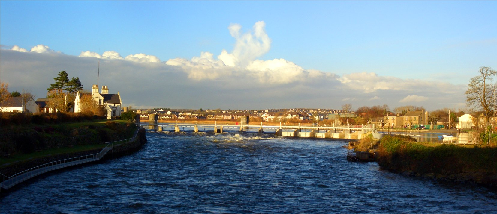 The title says it all. The salmon weir, Galway, today. Panorama created from three photos.